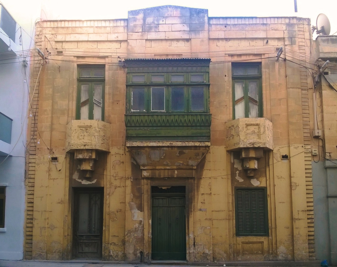 Art Deco House in Gzira. In Rue d'Argens, Gżira, (block 326-306), a double front dwelling built in the interwar period by architect Prof Joseph Colombo as his private residence and shortlisted for the first architectural awards held in 1936, was given Grade 2 protection status. The PA said the building’s elevation was exceptional in the way that the traditional townhouse had been reinterpreted in a modernist style making use of strong geometric motifs. 35.906227; 14.493473